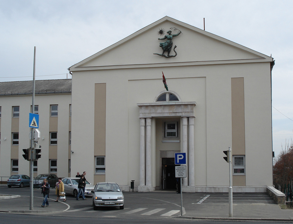 Clinic, Semmelweis Hospital, Miskolc, Hungary